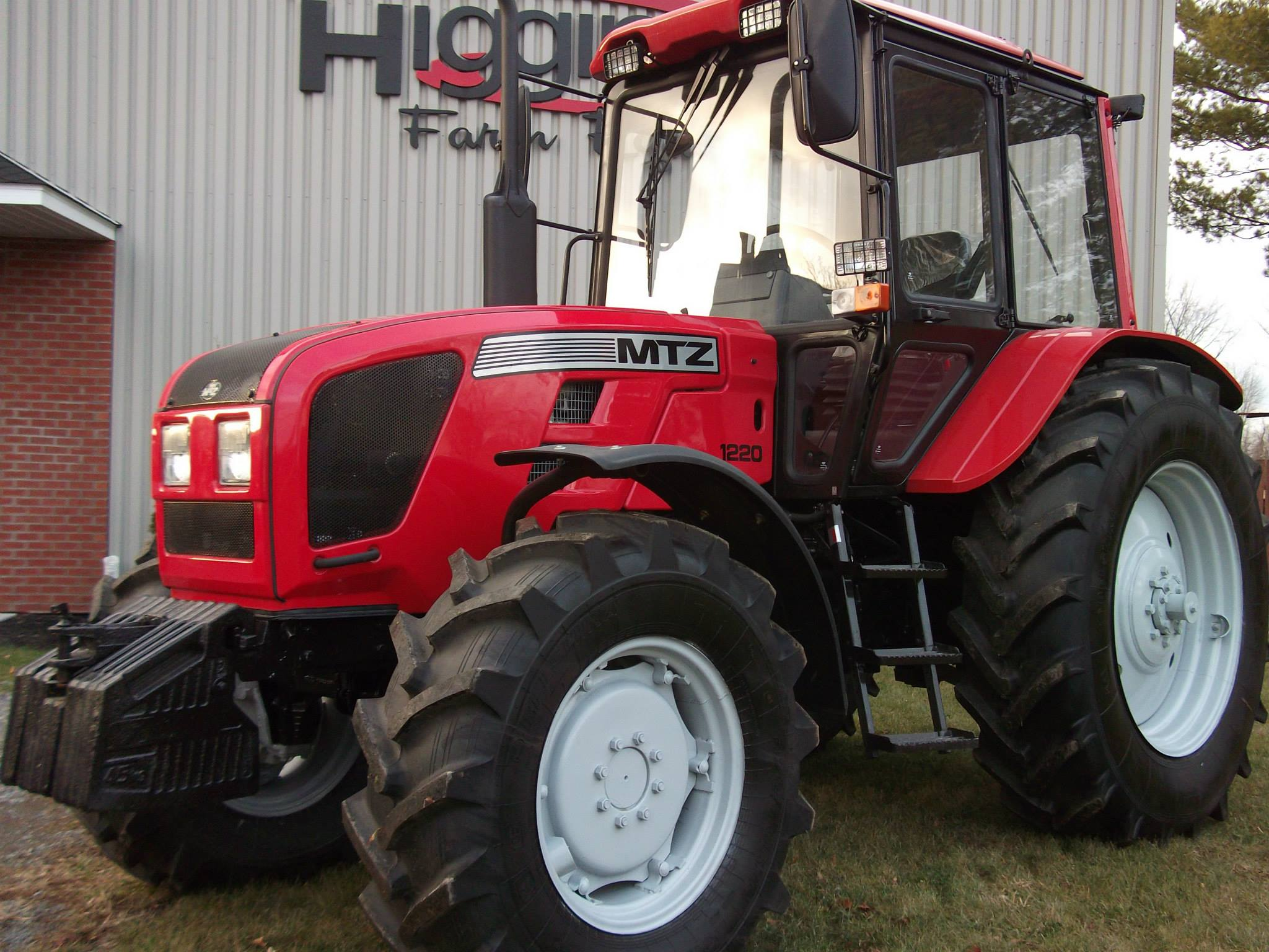 Tractor "Belarus 1220.4" from Minsk Tractor Works near Higginson Farm Equipment, Canada